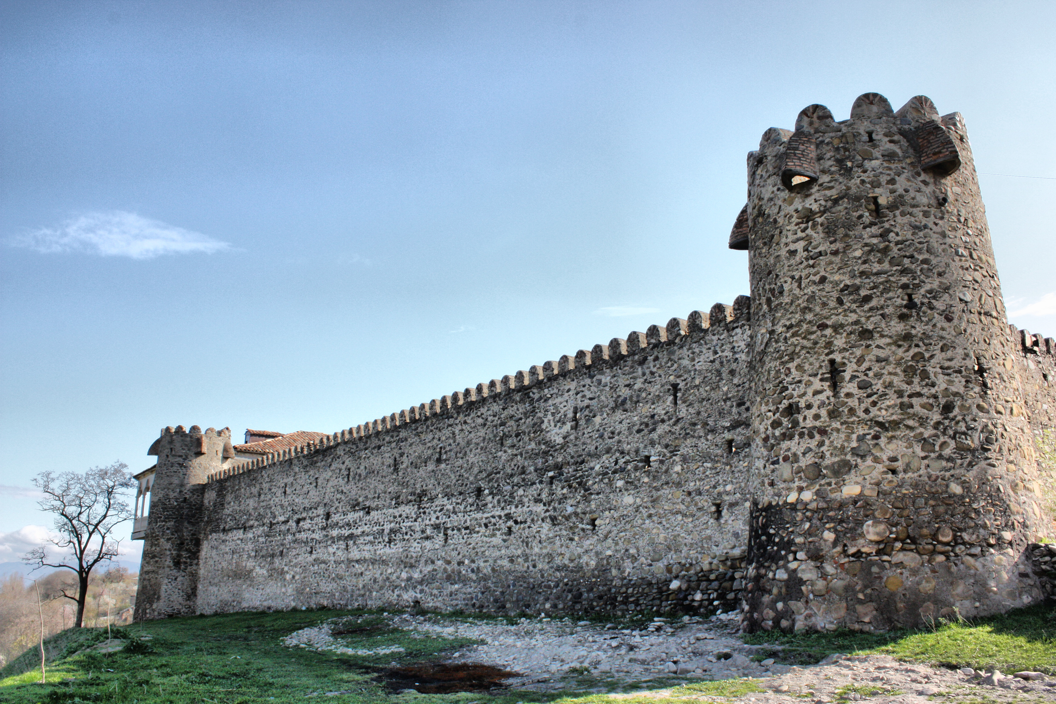 The wall of Orbeliani fortress.